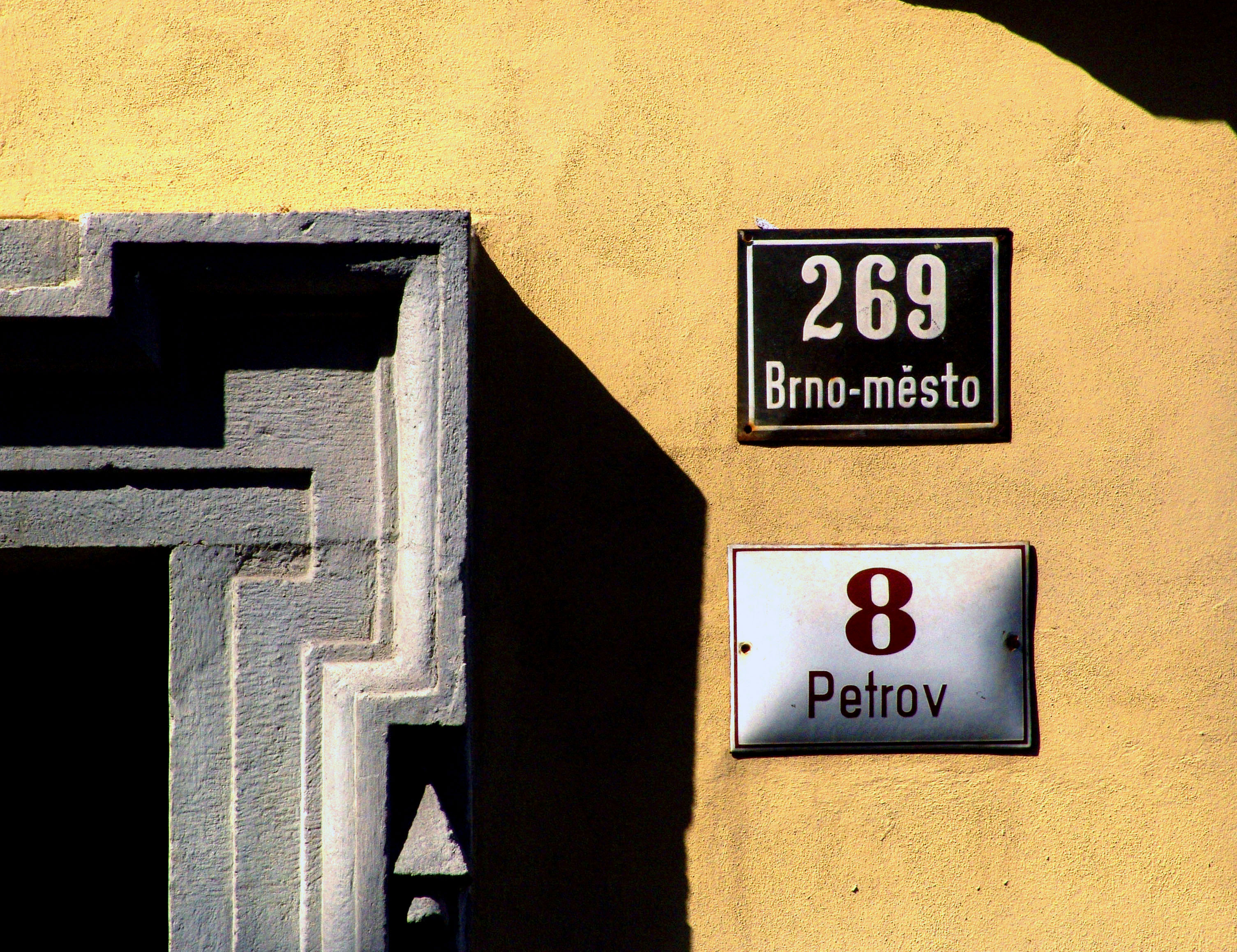 Petrov, Brno, Czech Republic (Author: Tomáš Pecina)